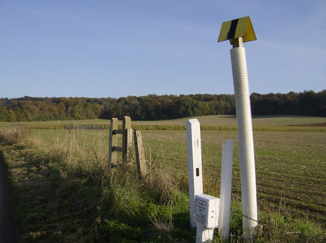 Oil pipeline marker, near to Woodcote, Oxfordshire, Great Britain. The white hydrant-type sign indicates that this is the location of an underground oil pipeline, with indication of whom to contact in the event of a problem. Although presumably disruptive at the time there is now no evidence along the ground of any activity, nor can anything be seen on aerial photography.